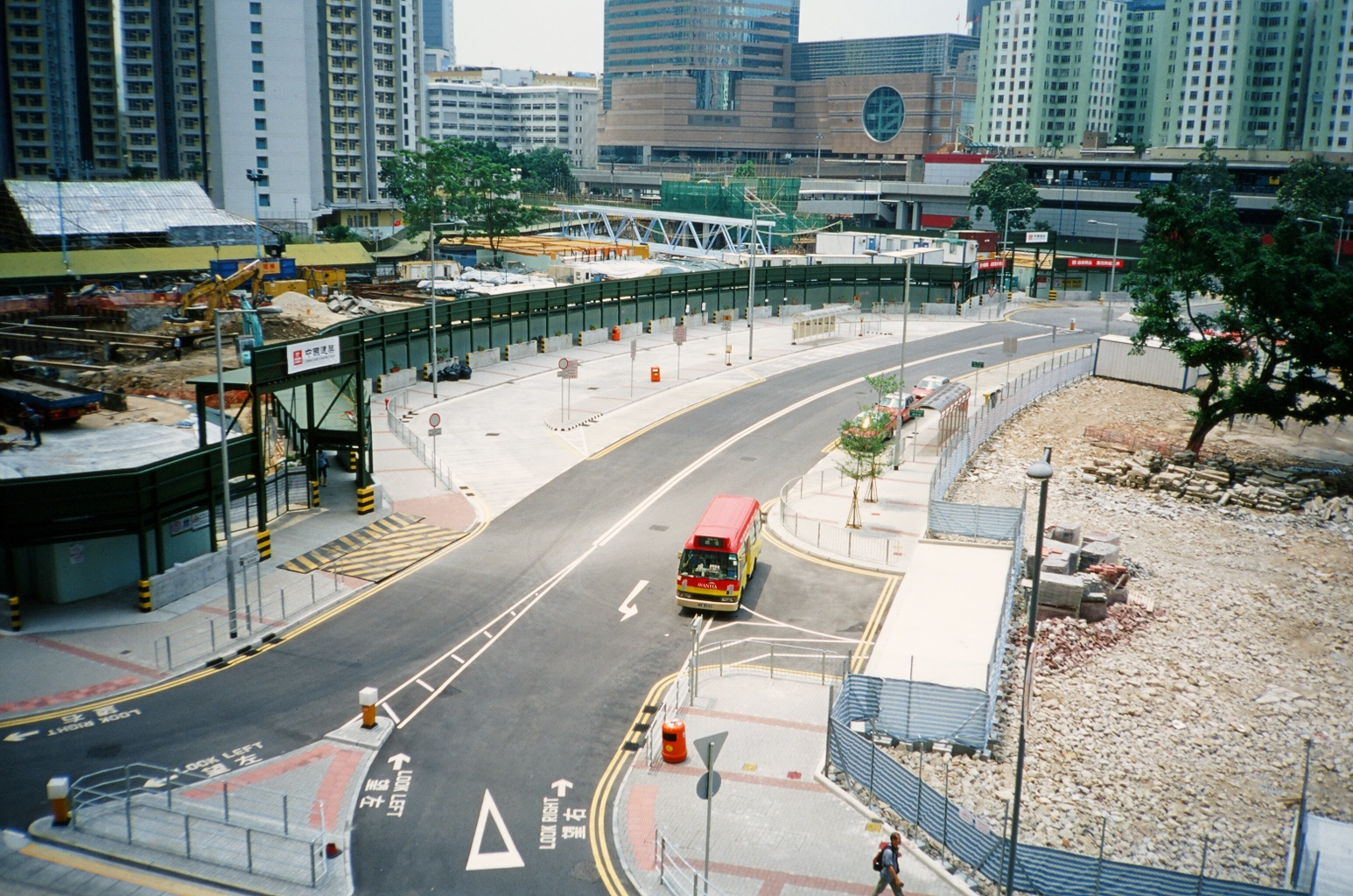 A view taken from Amoy Garden towards the west, Fuk To Street is seen. The construction site on the left hand side will build the block 6 of Lower Ngau Tau Kok Estate.